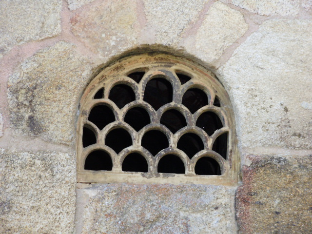 Visigothic church, Galicia, Spain, VII century